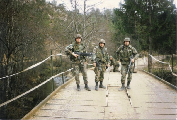 1ST PLATOON AND ELEMENTS OF THE A&O PLATOON, B COMPANY, 9th ENGINEER BATTALION, AVLB INSPECTION AT CAMP DEMI, BOSNIA 1996 ZOS